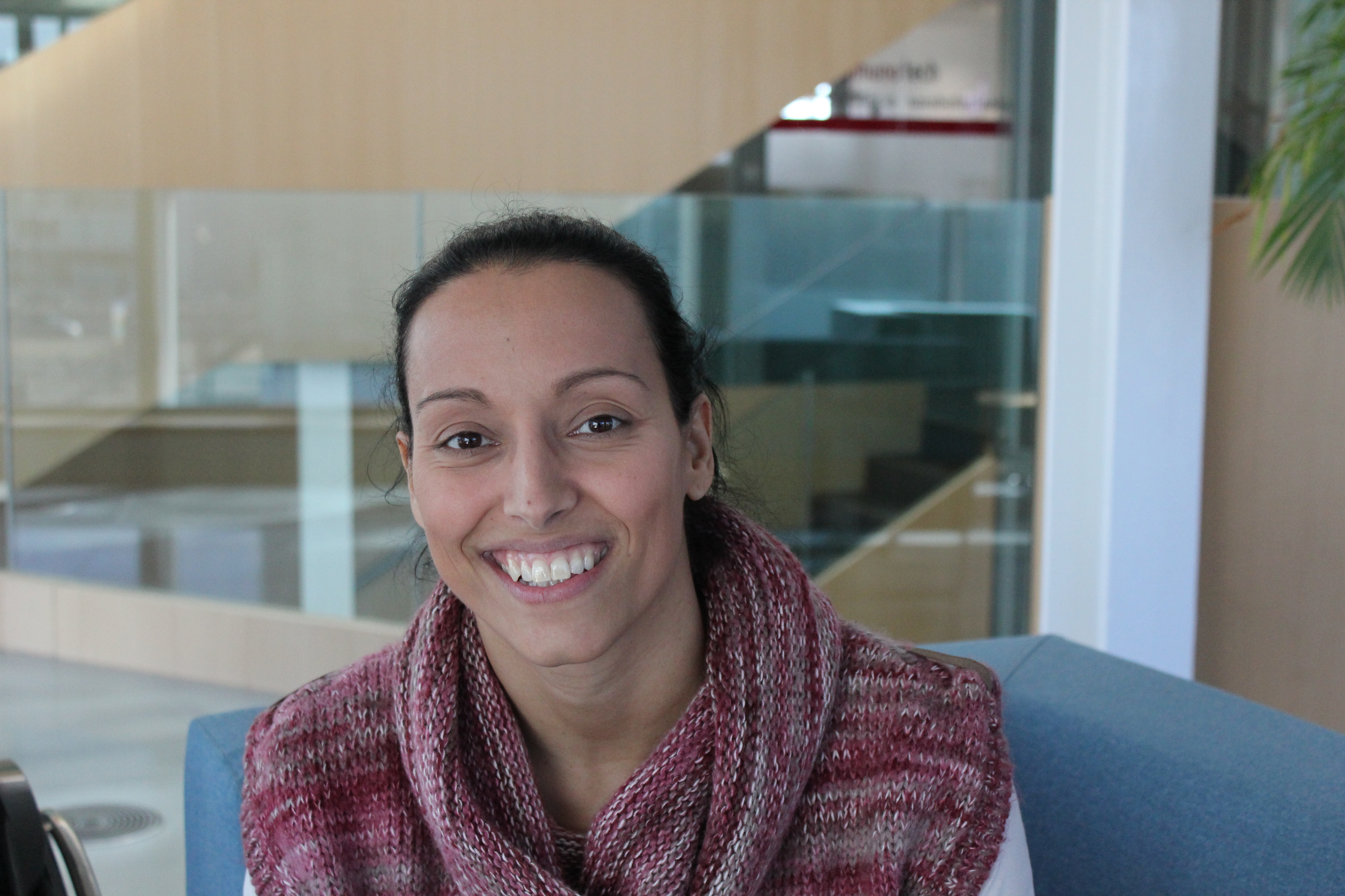 A picture of Teresa Perales in Zaragoza for an interview with Wikinews on 17 January 2013.